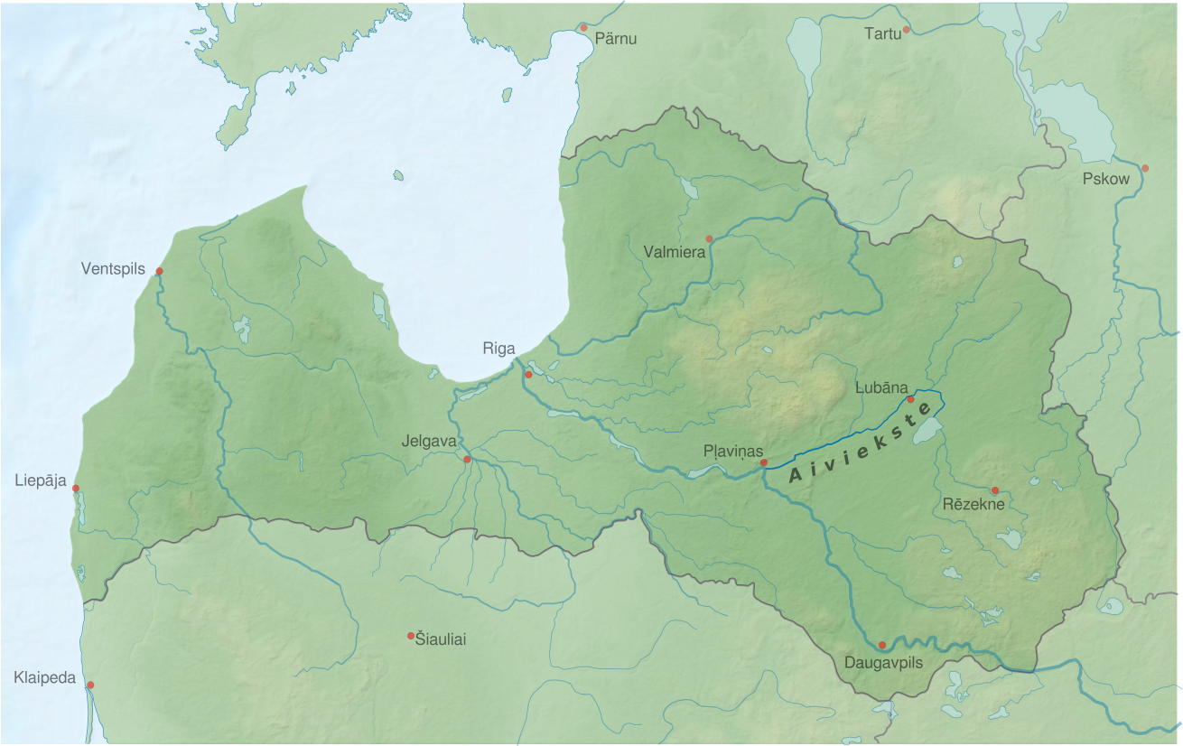 Map of river Aiviekste in Latvia based on relief-location maps by users: NNW, Виктор В, Alexrk2, Chumwa, Karlis